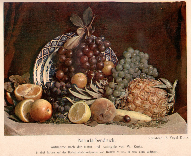 Still-life of fruit. One of the first images printed using a three-color halftone process that was widely reproduced. Caption reads: "Naturfarbendruck. Aufnahme nach der Natur und Autotypie von W. Kurtz. In drei Farben auf der Buchdruck-Schnellpress von Bartlett & Co., in New York gedruckt." ("Natural-color printing. Photographed from nature and autotyped by W. Kurtz. Printed in three colors on the rapid printing press of Bartlett & Co., in New York.")